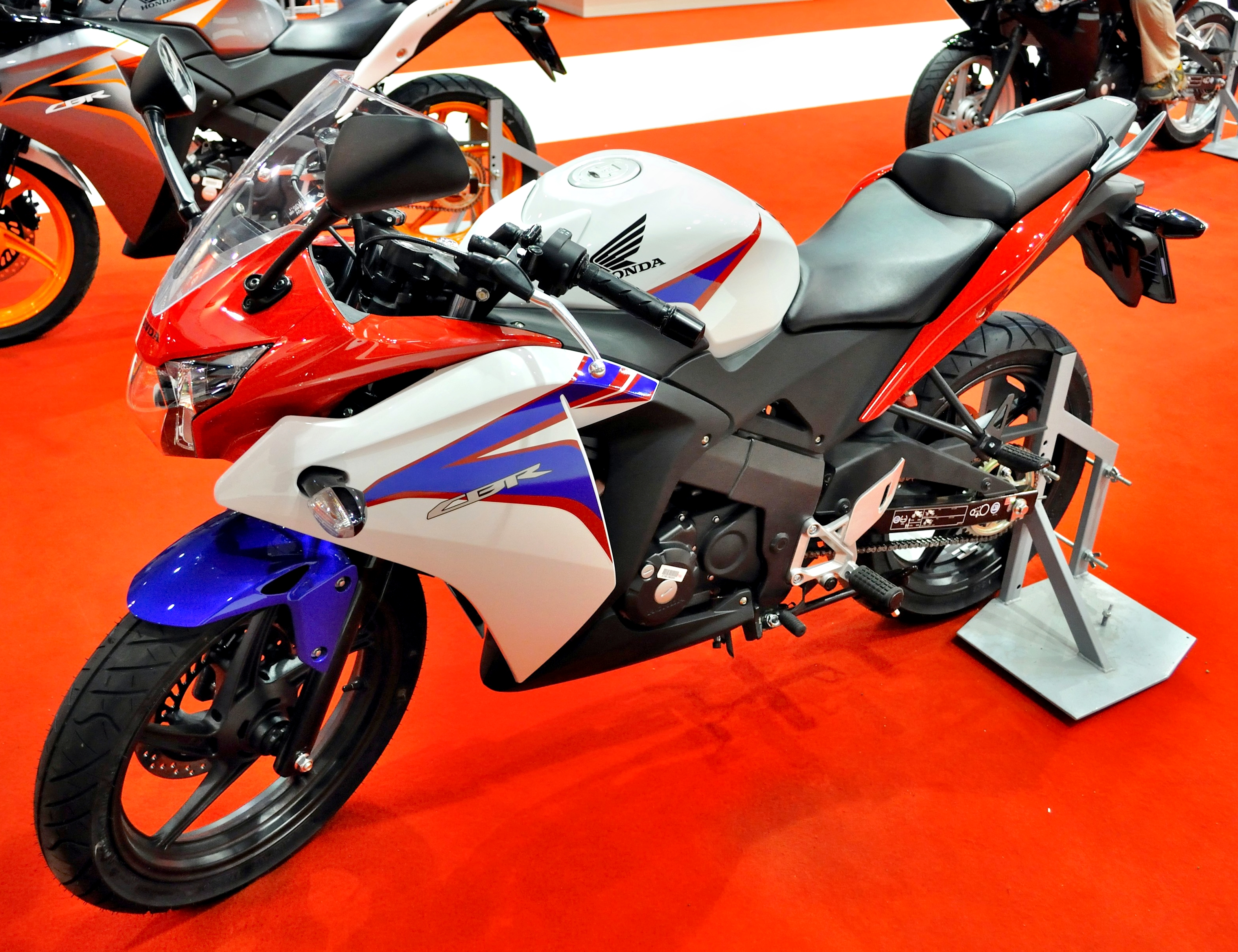 2011 blue red and white Honda CBR125R at Motosalon, Prague, Czech Republic